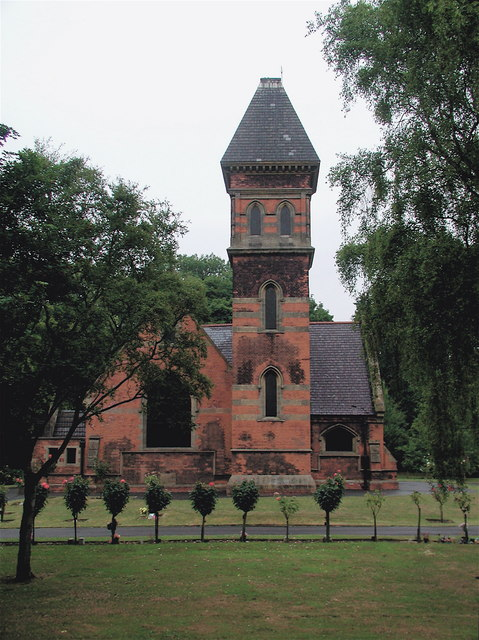 Crematorium at Hedon Road Cemetery, Hull, East Riding of Yorkshire, England.Red brick and roses glow quite brightly even in the rain at Hedon Road Cemetery, Hull. This crematorium (now disused) was the first local authority crematorium, which opened in 1901.